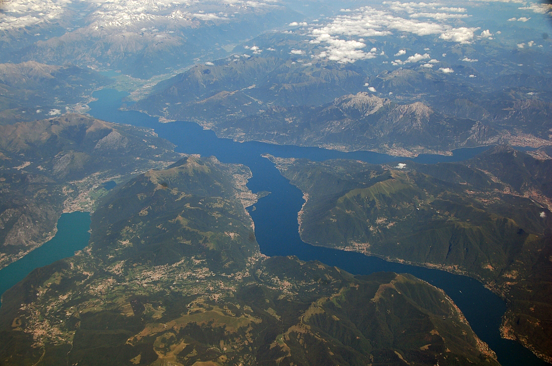 Aerial photographs